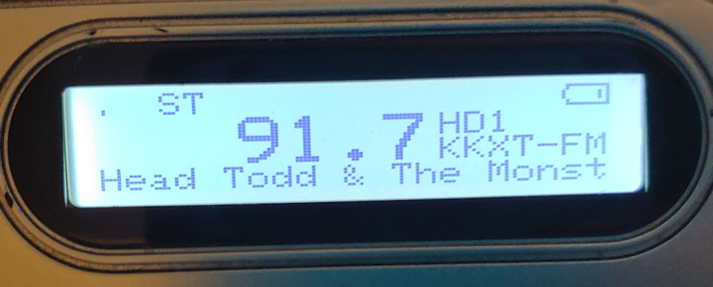 Photo taken on May 2nd, 2019 using the SPARC SHD-TX2 HD Radio.